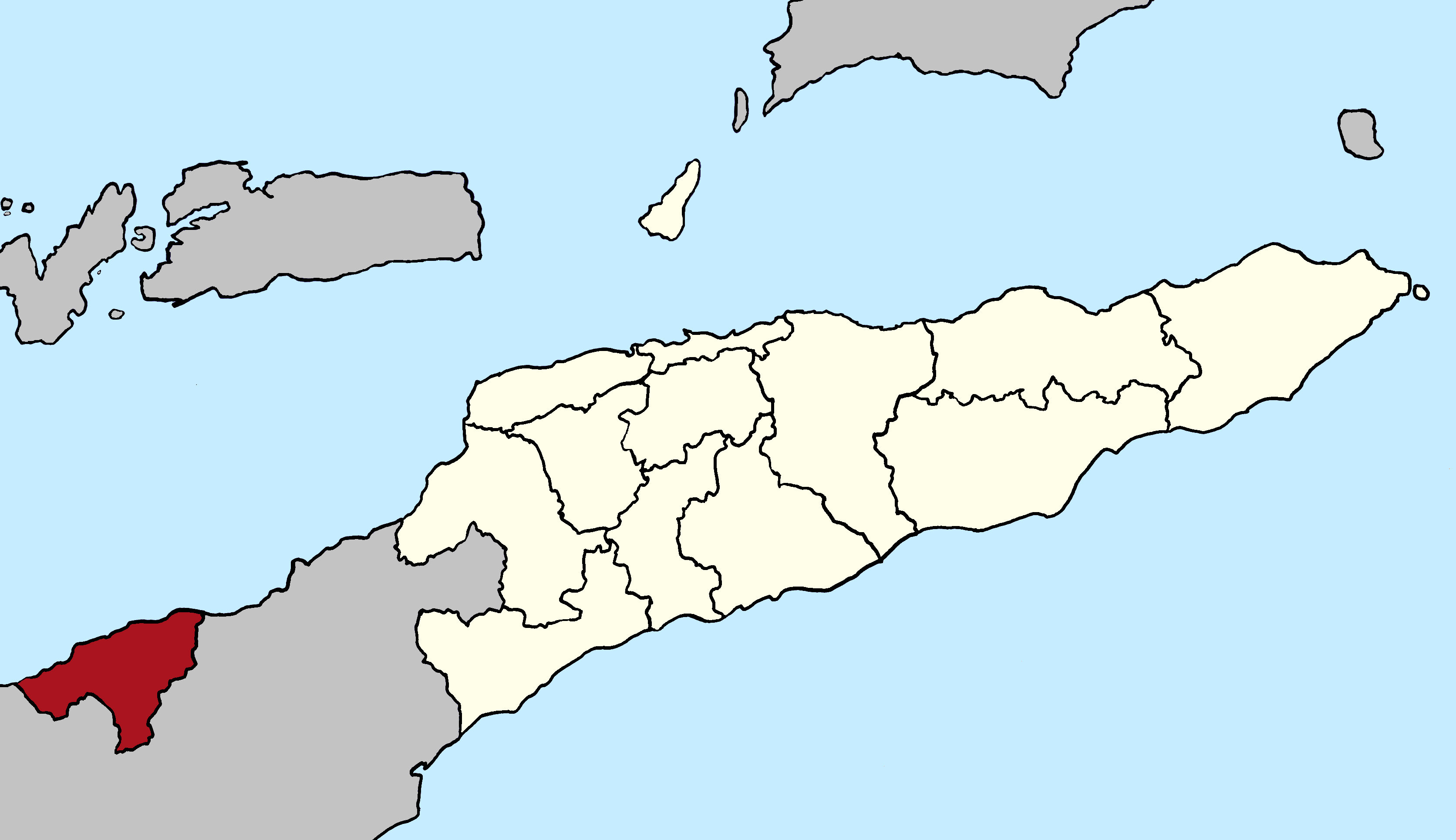 Locator map of Oecusse municipality since 2015, East Timor